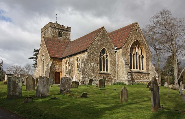 St Martin's Church, Brasted, Kent